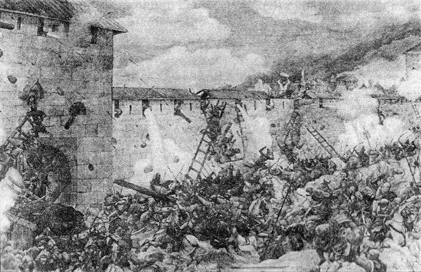 The defense of Moscow from the army in 1382 Tokhtamysh